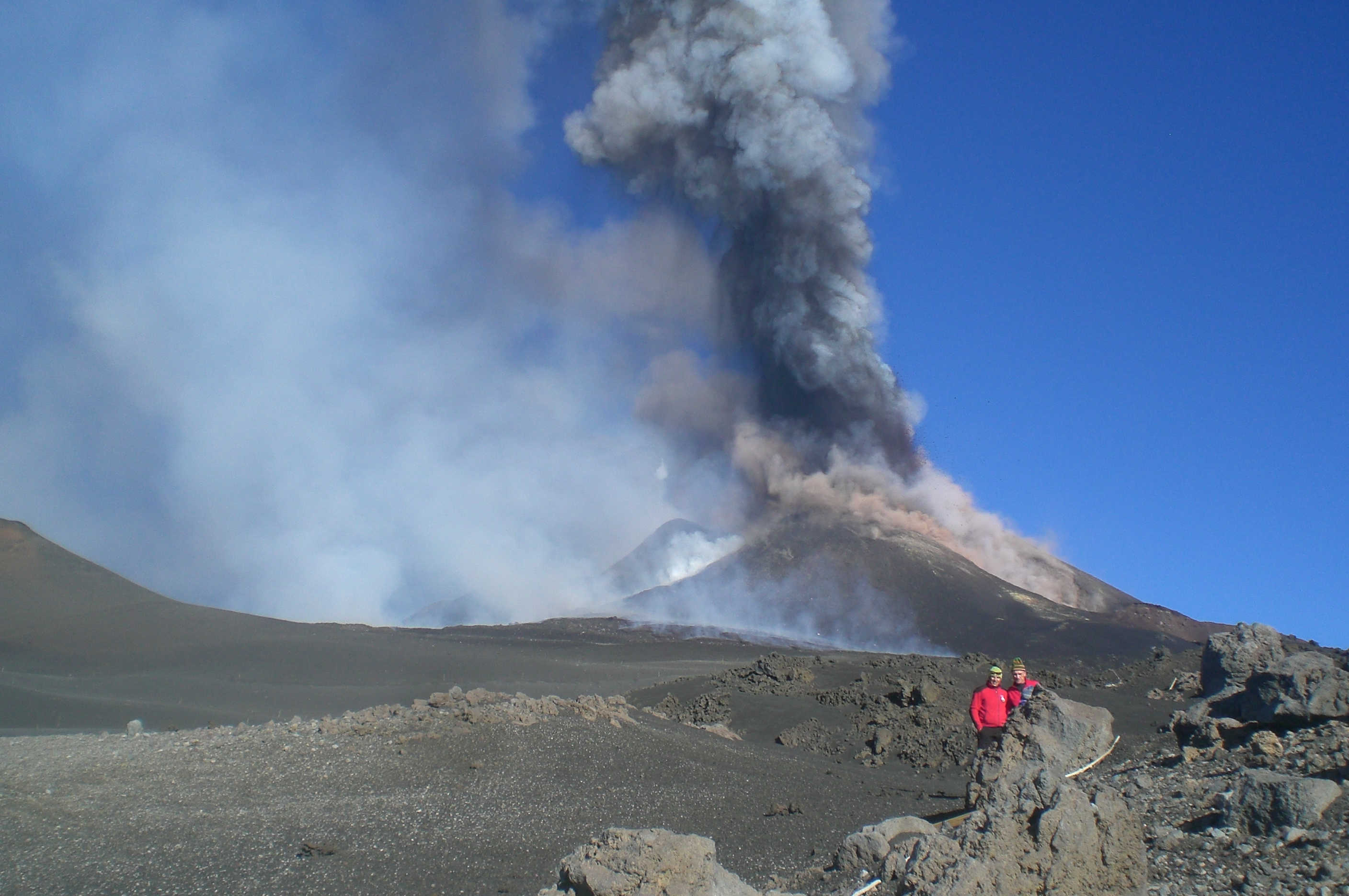 Etna Volcano Paroxysmal Eruption October 26 2013 - Creative Commons by gnuckx